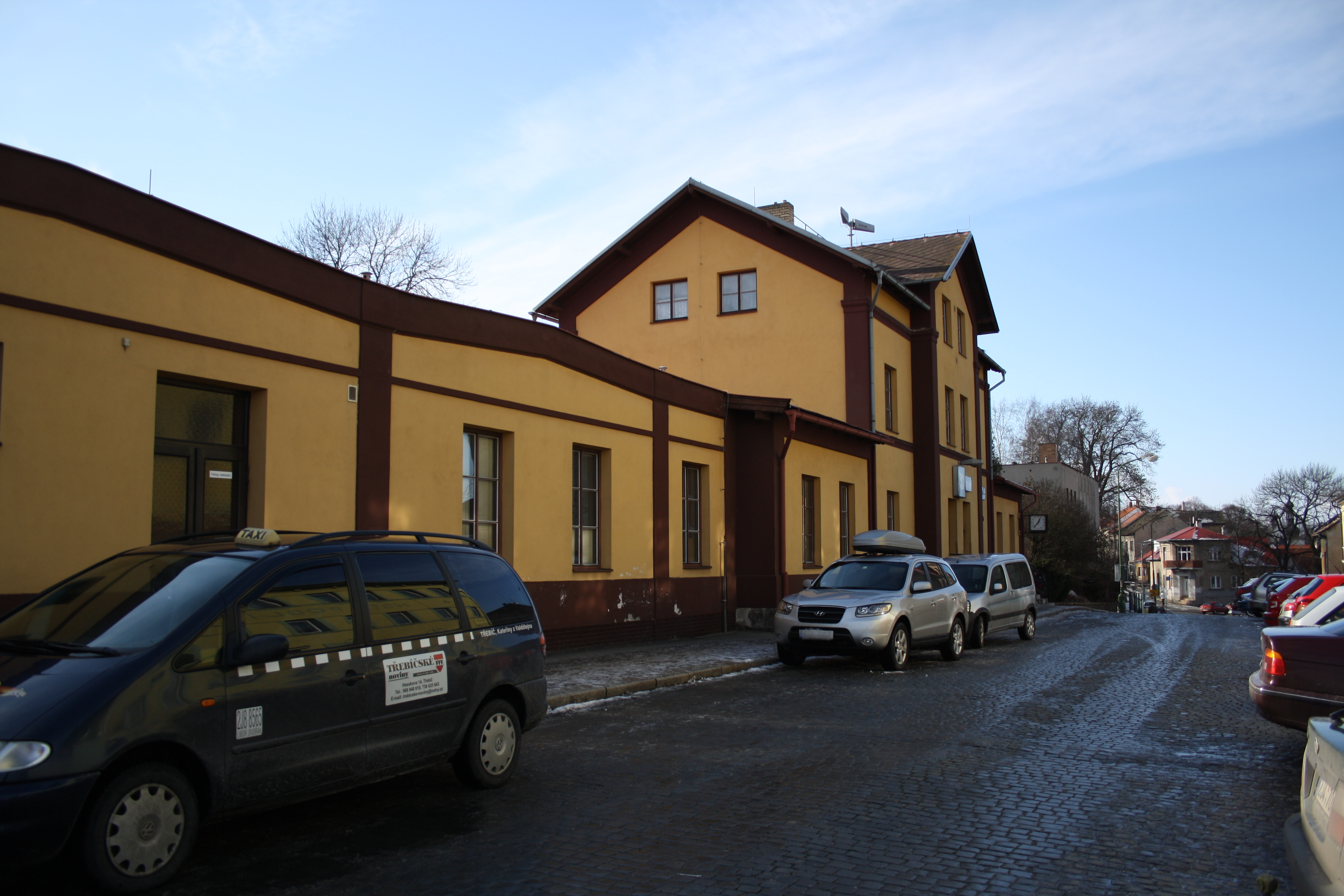 Train station in Třebíč, Horka-Domky.